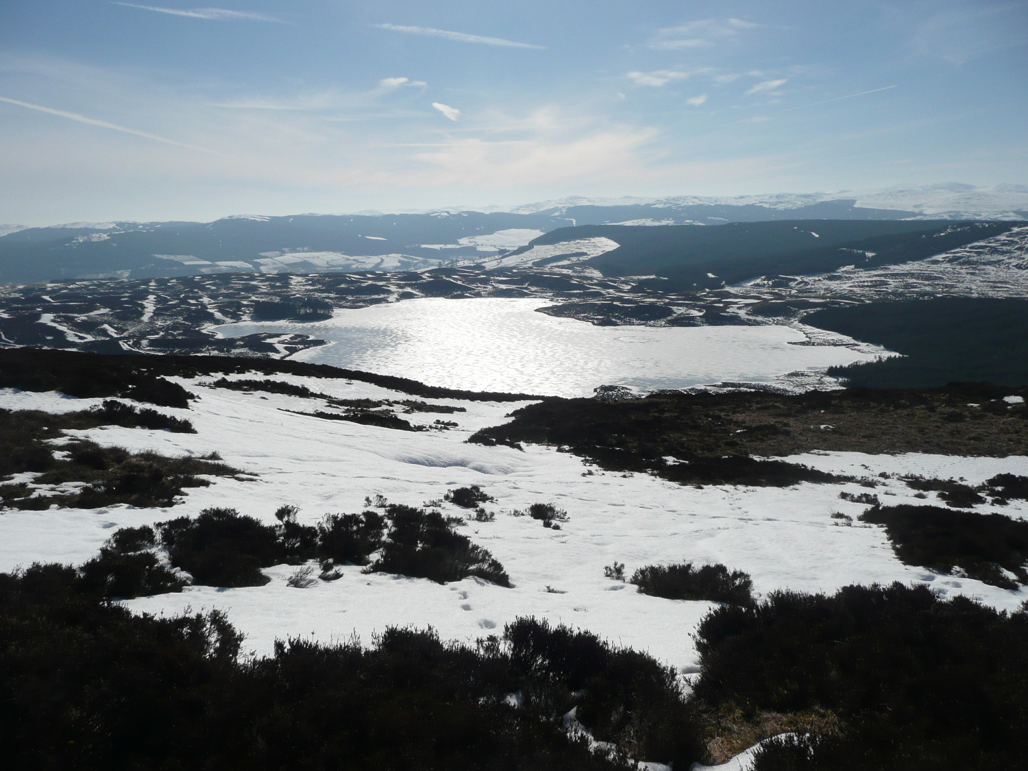 Frozen Loch Derculich Note the red deer footprints criss-crossing the snow. This is just within the square. To get further into the square would have required further descent and then reascent on soft melting snow to return to Loch Tummel and the car!